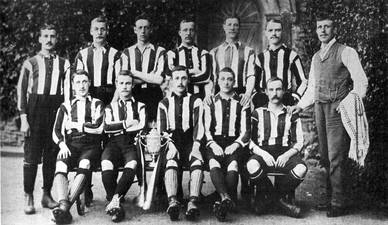 The Notts County F.C. team that won the FA Cup final, posing with the trophy.